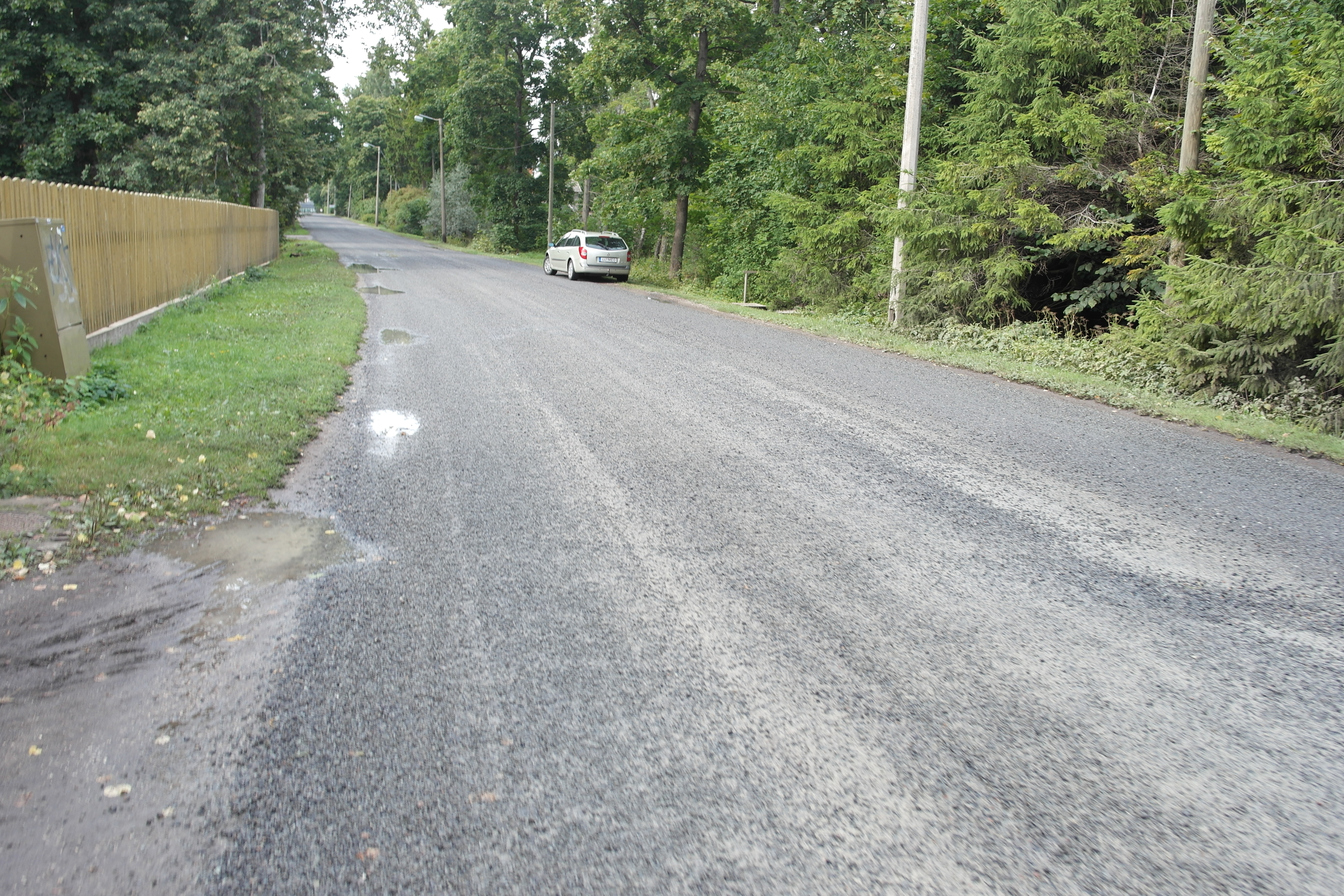 Tallinna mnt. street